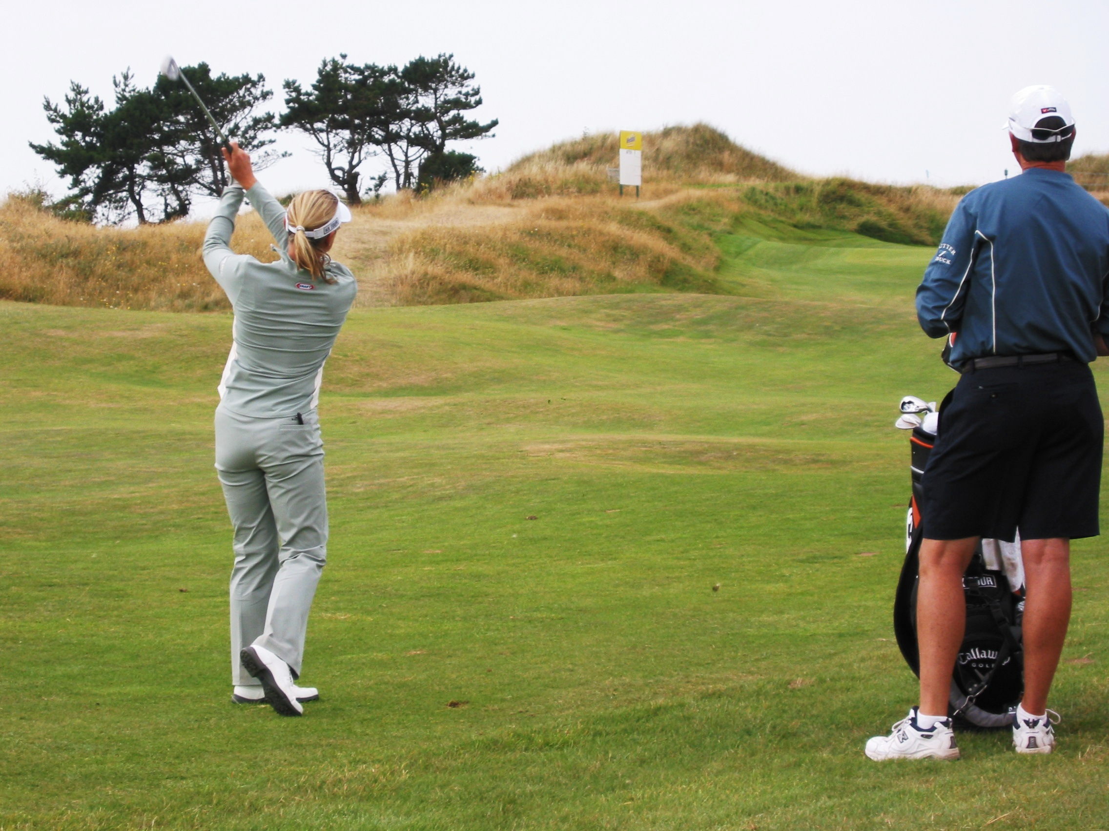 Annika Sörenstam, watched by caddie Terry McNamara, hits an approach shot to the 10th green during the 2005 Women's British Open Pro-Am at Royal Birkdale Golf Club